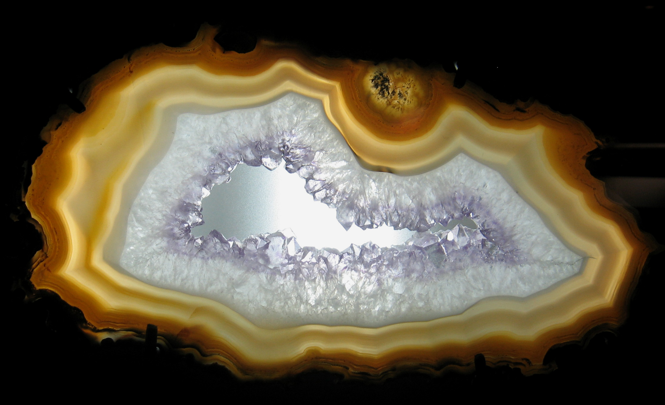 Agate and quartz lining a geode. (public display, Cleveland Museum of Natural History, Ohio, USA) This is a cut slice from the interior of a geode. Geodes are small to large, subspherical to irregularly-shaped, crystal-lined cavities in rocks. They form when water enters a void in a host rock and precipitates crystals. The most common geode-lining mineral is quartz. This geode is bordered by brownish, yellowish, and grayish agate. "Agate" is a rockhound/collector term for irregularly concentric layers of microcrystalline, fibrous quartz (chalcedony - SiO2). Agate is quartz. The light gray, glassy & pale purplish material near the center is macrocrytalline quartz. Geode info. from the Field Museum of Natural History (Chicago, Illinois, USA): "Geodes are hollow, subspherical bodies, ranging from an inch or two to a foot or more in diameter. Most geodes occur in limestones, rarely in shales. They have an outer chalcedonic silica layer which is separated from the enclosing limestone matrix by a thin clay film. The inner surface of the chalcedonic layer is usually lined with inward projecting quartz crystals, though in many geodes drusy coatings of calcite and dolomite occur commonly. Of less common occurrence, are crystals of magnetite, pyrite, sphalerite, and a few other such minor and rarer constituents. The mode of origin of geodes in sedimentary rocks is but imperfectly understood. That geodes originate in an initial cavity, such as the unfilled space within a fossil, is well recognized, but whether such a cavity is a necessary prerequisite is open to question; geodes may originate in cavities formed by solution. Many geodes show evidence of expansion, apparently resulting from pressure. A notable example of this singular phenomenon of expansion of the growing geodes is the "exploding bomb" structure. "